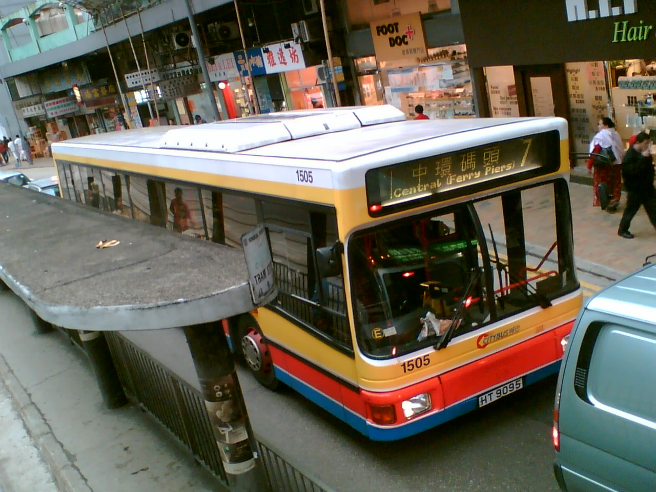 Photo of Citybus Route 7